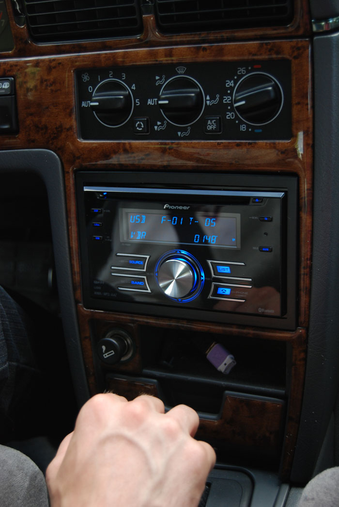 Pioneer FH-P80BT double din headunit installed in a Volvo 960 1995.